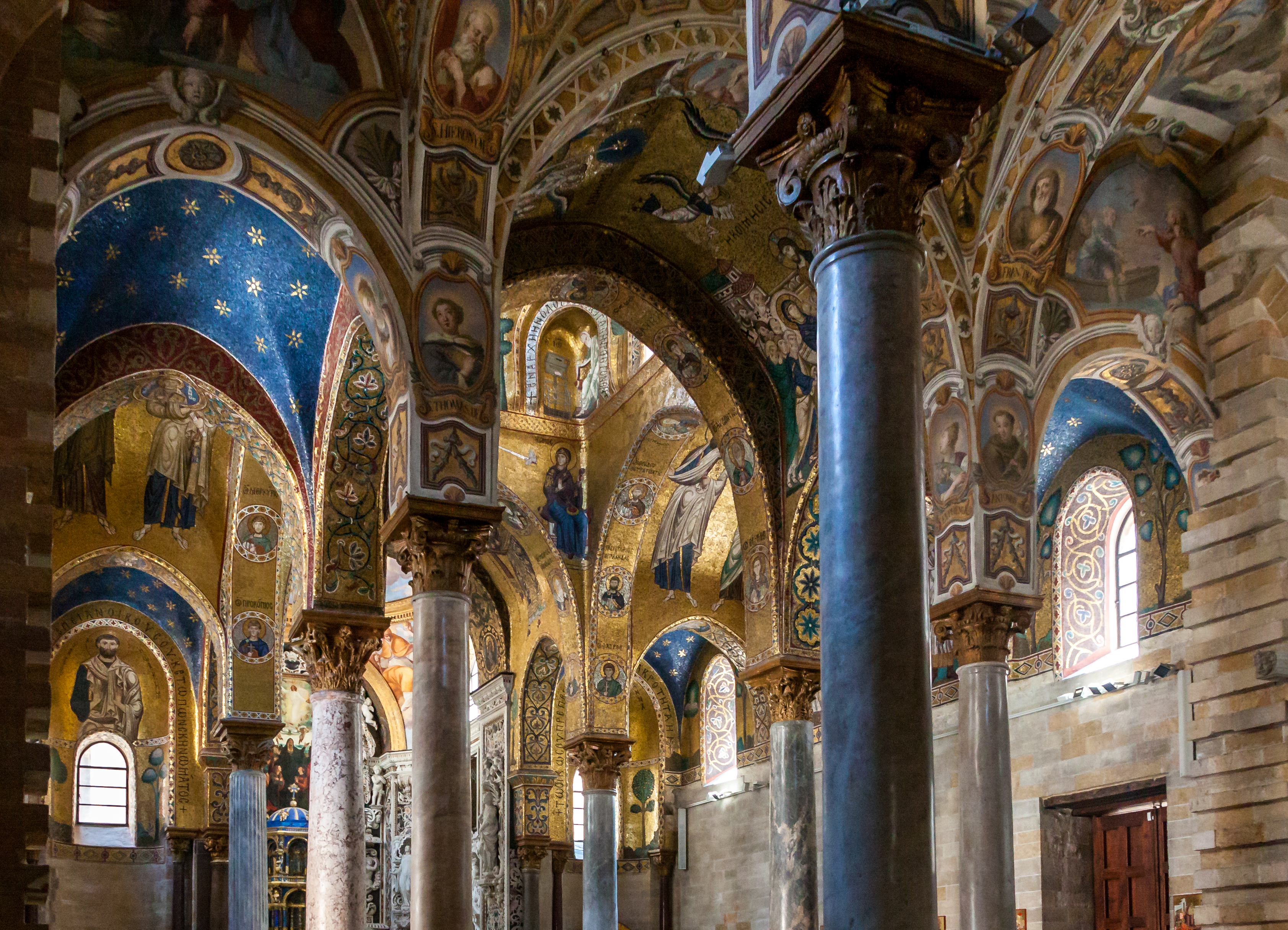 La Martorana, also known as Santa Maria dell'Ammiraglio (Saint Mary of the Admiral), is a church in Palermo (Sicily, Italy). The church is annexed to the next-door church of San Cataldo and overlooks the Piazza Bellini in central Palermo.